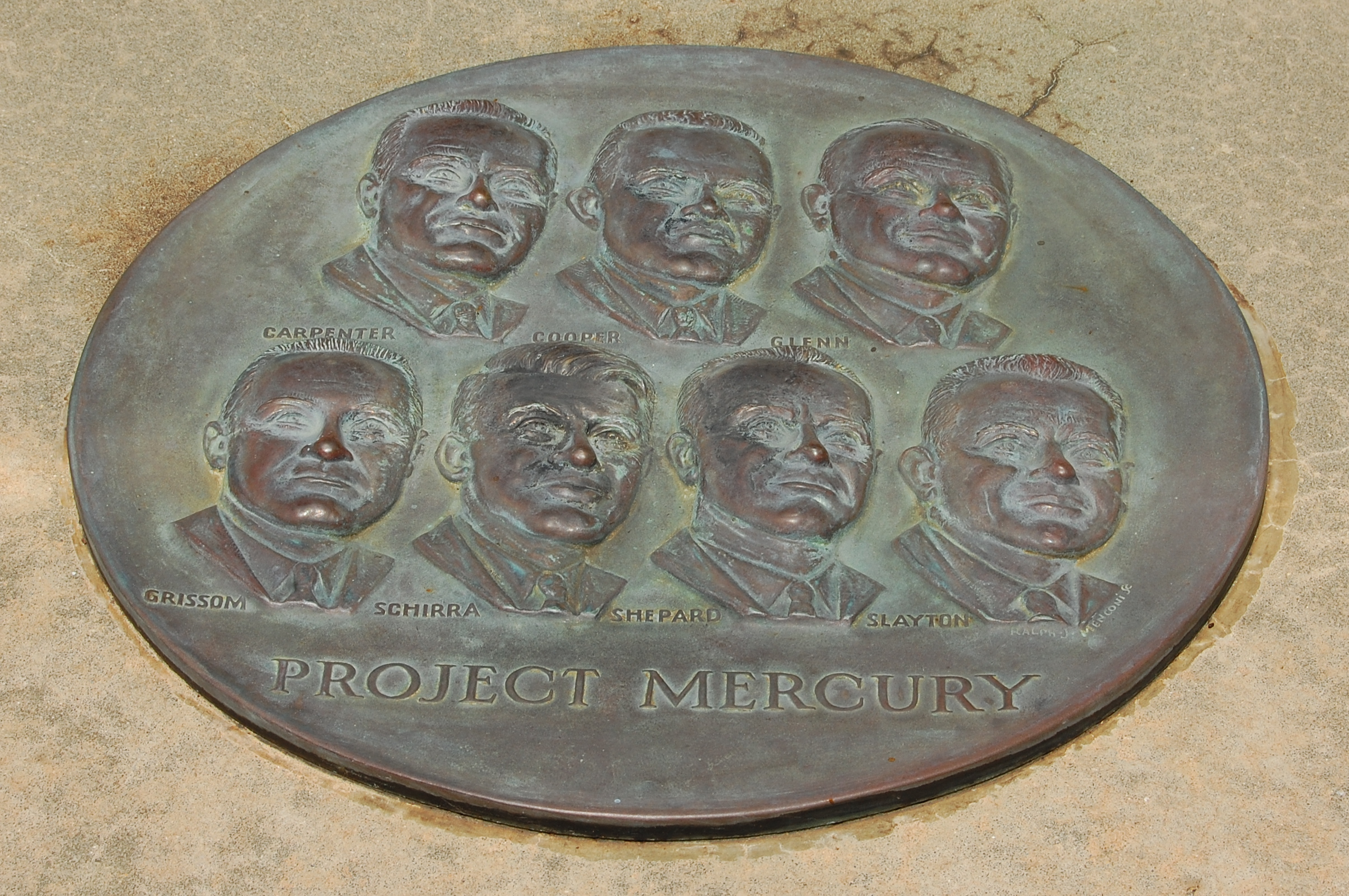 Plaque at the Mercury 7 Monument, Cape Canaveral Air Force Station Launch Complex 14.